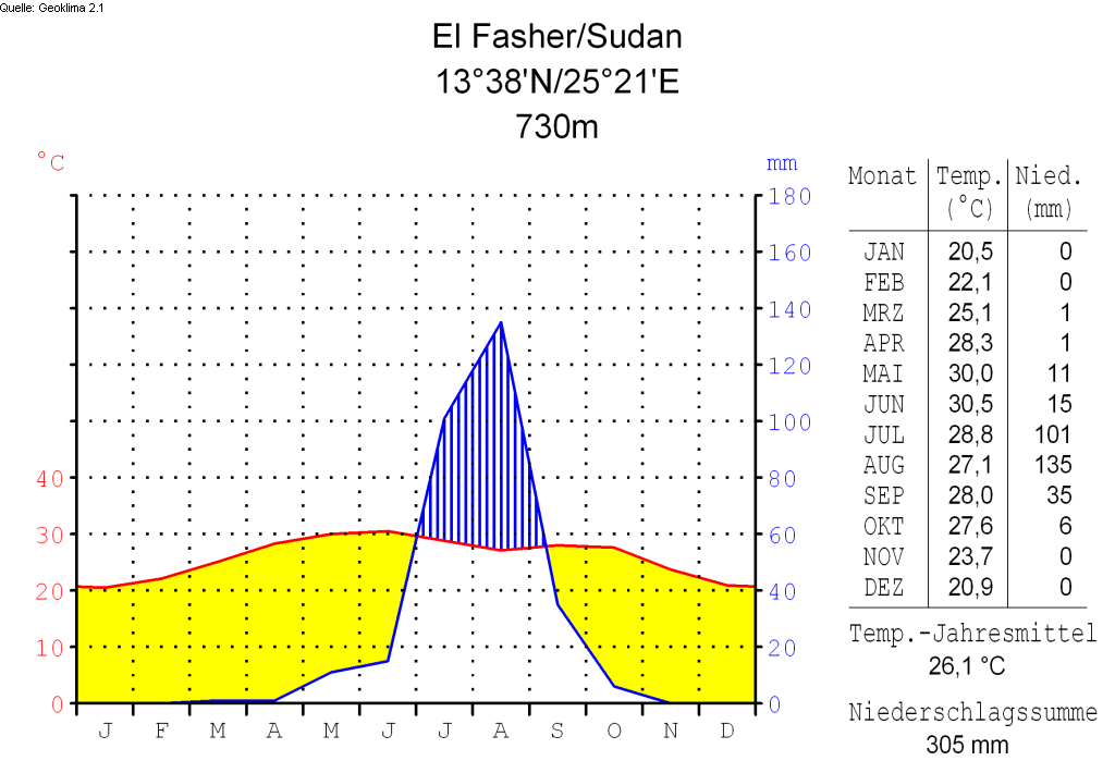 climate chart in the format by Walter and Lieth, metric, °Celsisus and millimeters, made with Geoklima 2.1